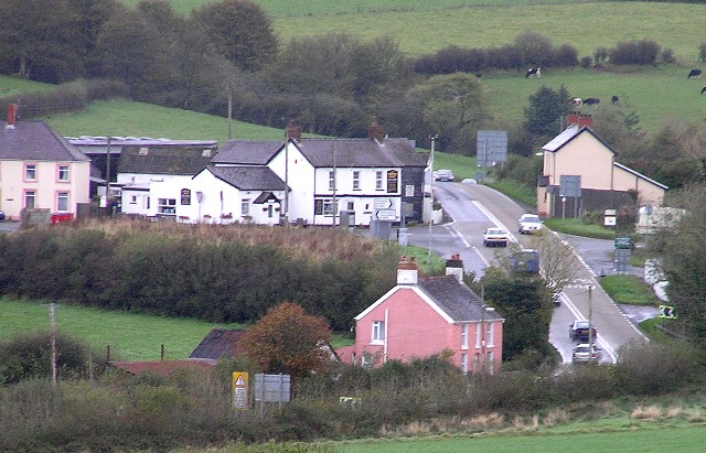 Red Roses village A very busy cross roads.